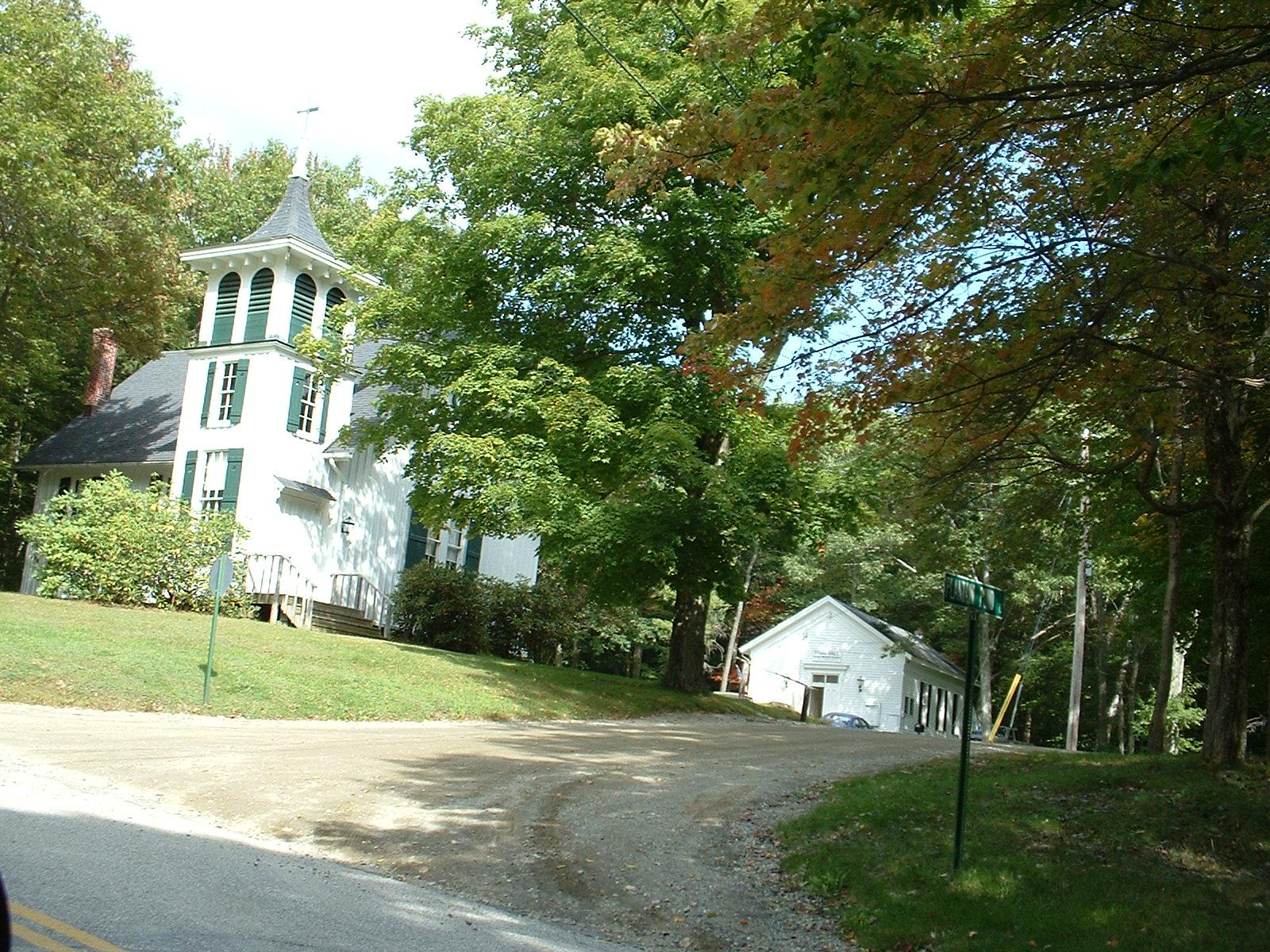 The town hall of Mount Washington, Massachusetts, with a congregational church next door. Mount Washington Town Hall, Plantain Pond Rd, Mount Washington, MA